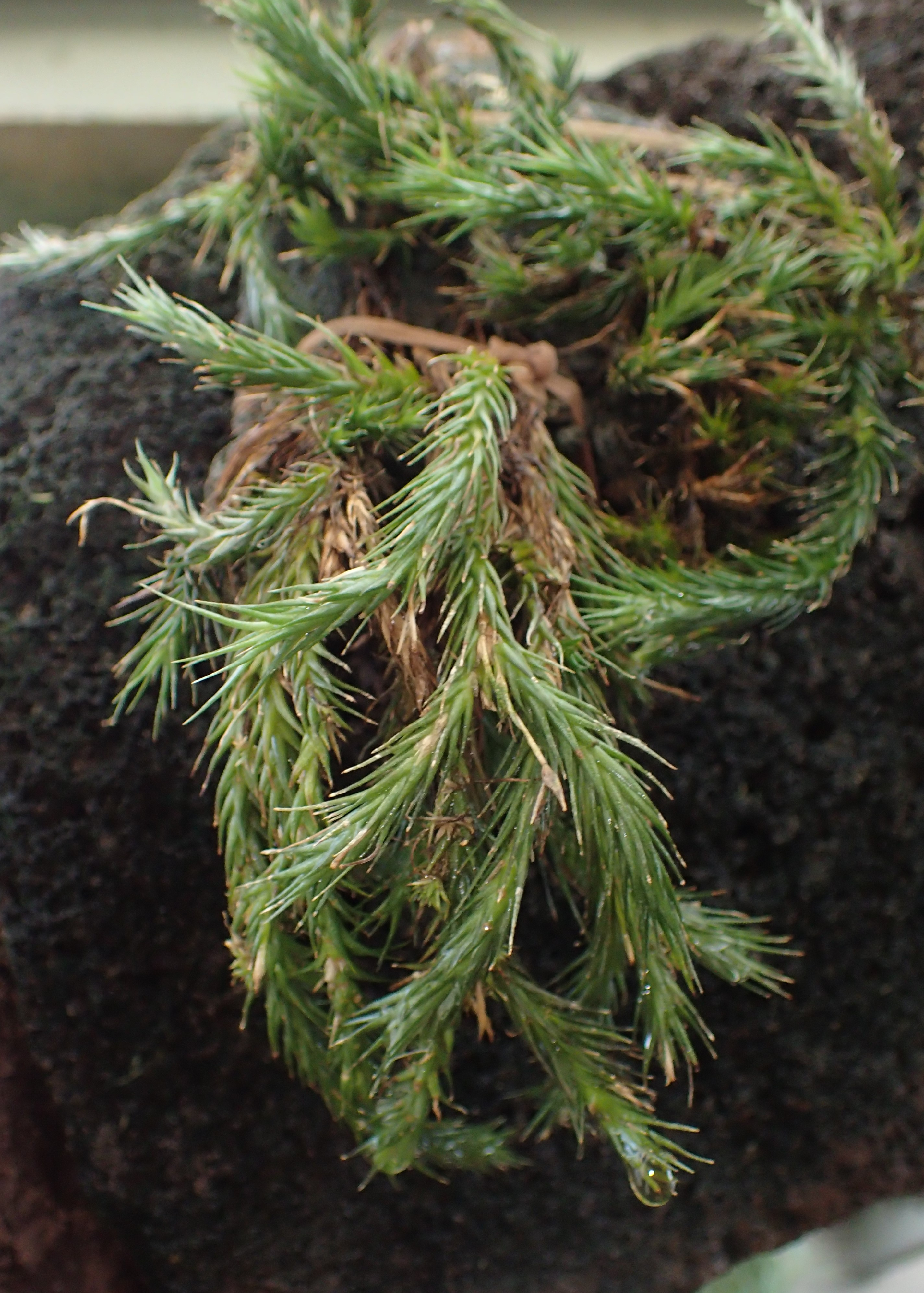 Tillandsia tricholepis in the Botanischer Garten, Berlin-Dahlem